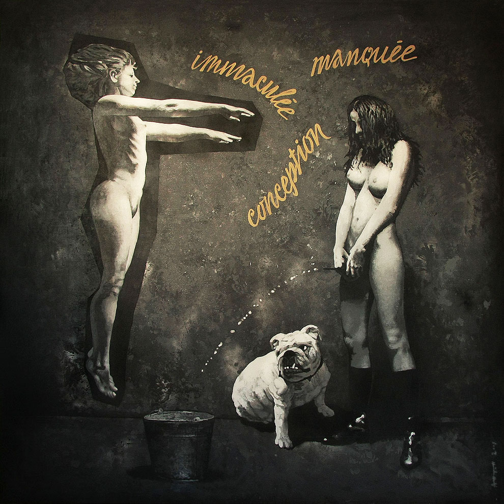 The Myths and the Limits. Failed Immaculated Conception. 179x179cm. Photographs on paper, scissors, and glue.